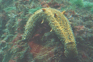 Warty Sea cucumber Parastichopus parvimensis, Family: Stichopodidae Kelp Forest Exhibit Modeling Project, Brutzman, Donald P. et al., Naval Postgraduate School, Monterey California, January 1999. Available at